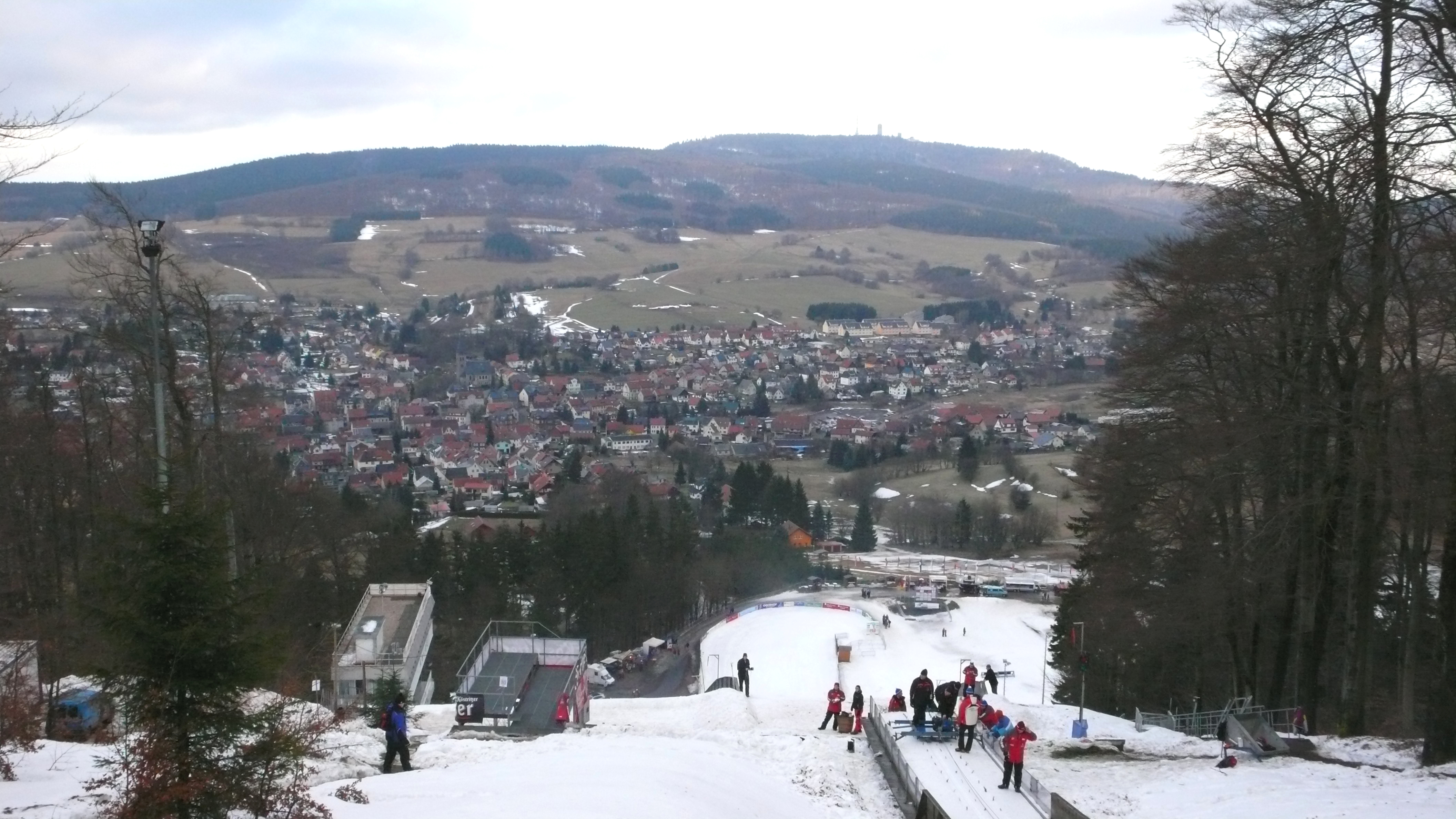 The jumping hill of "Inselbergschanze", in Brotterode